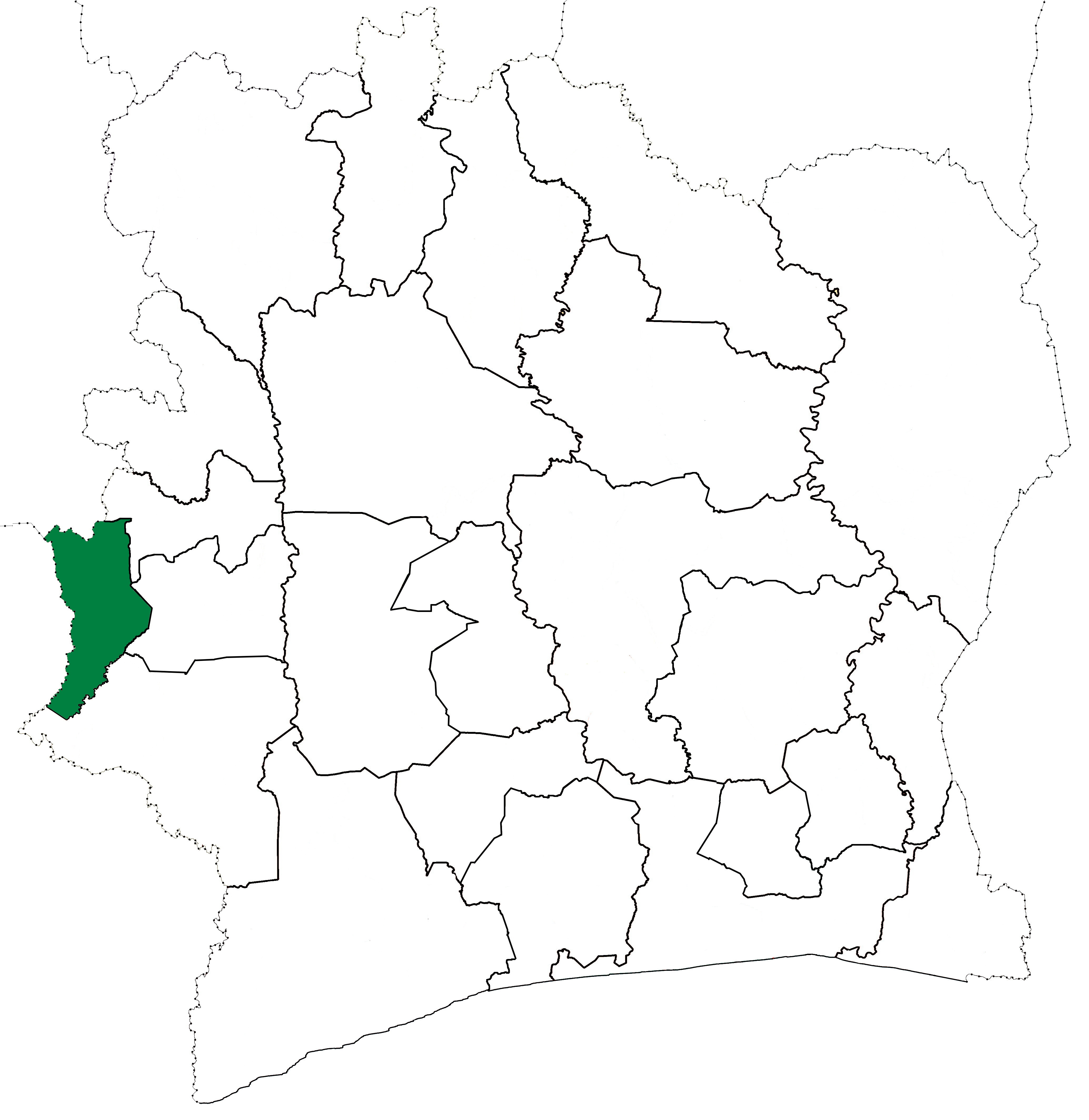 Locator map for Danané Department in Côte d'Ivoire when the 24 new departments were created in 1969. Danané Department kept these boundaries until 2005, but other departments began to be divided in 1974.